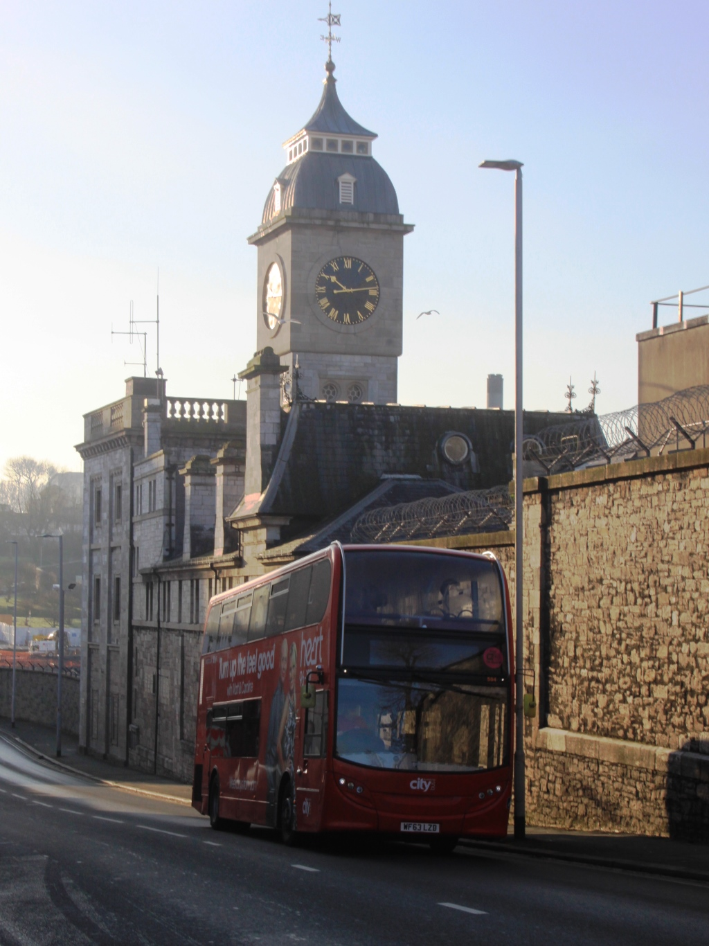 Passing the naval dockyard at Devonport, Plymouth Citybus' 504 (an Enviro400 registered WF63LZD) heads north along Keyham Road.